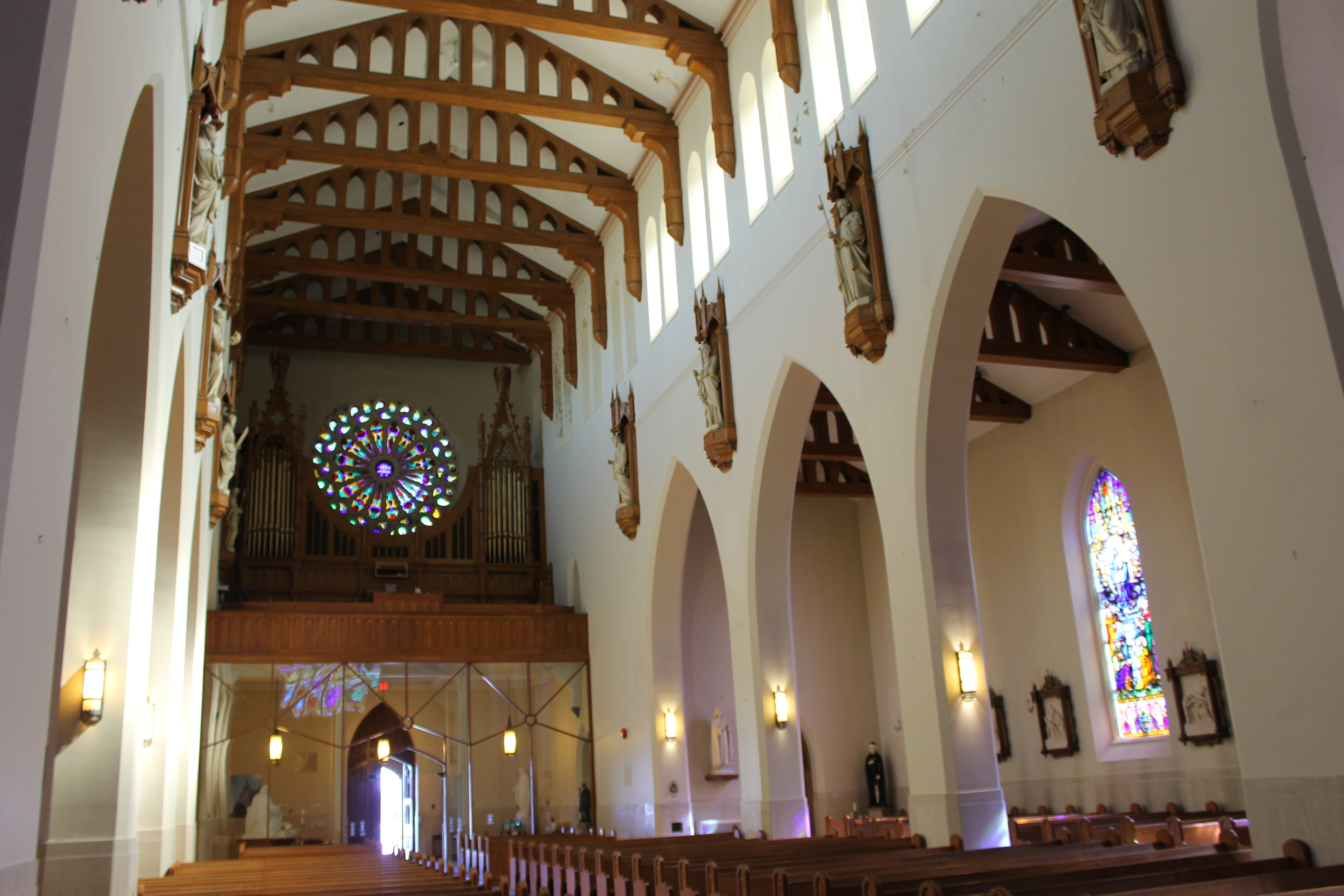 Rose vBud window, Cathedral of the Immaculate Conception, Saint John NB